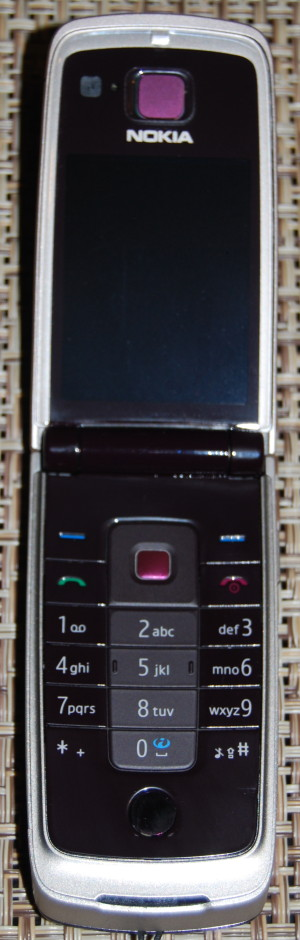 Nokia 6600 fold pink open